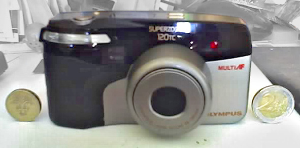 GNU FDL image of Olympus Superzoom 120TC taken by me with a Motorola V620 camera phone